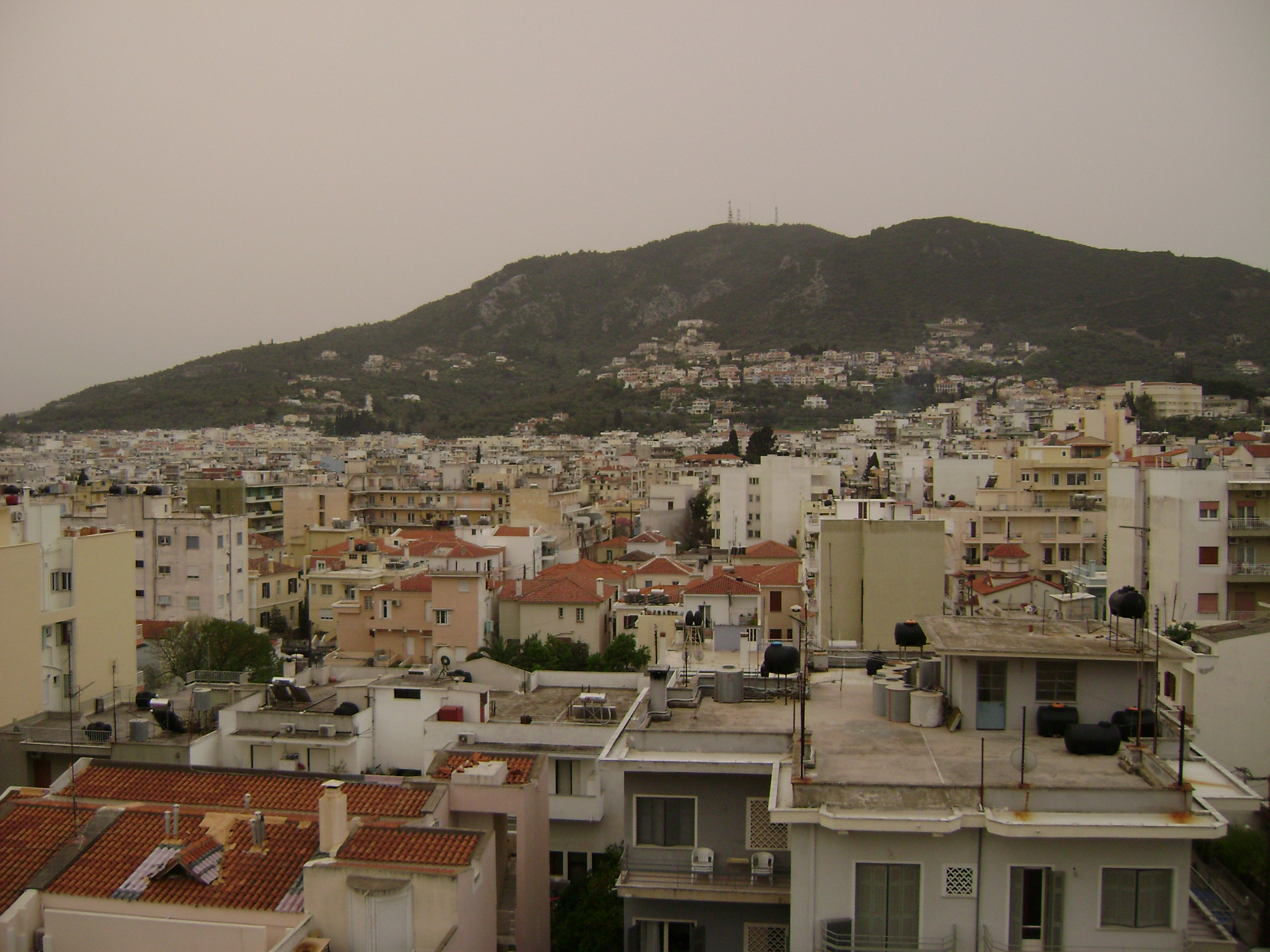 South Mytilini city and the "Profitis Ilias" hill view from the blocks of flats i live.